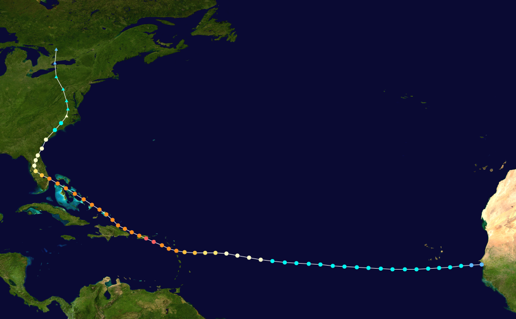 1928 Okeechobee hurricane track. Uses the color scheme from the Saffir-Simpson Hurricane Scale.